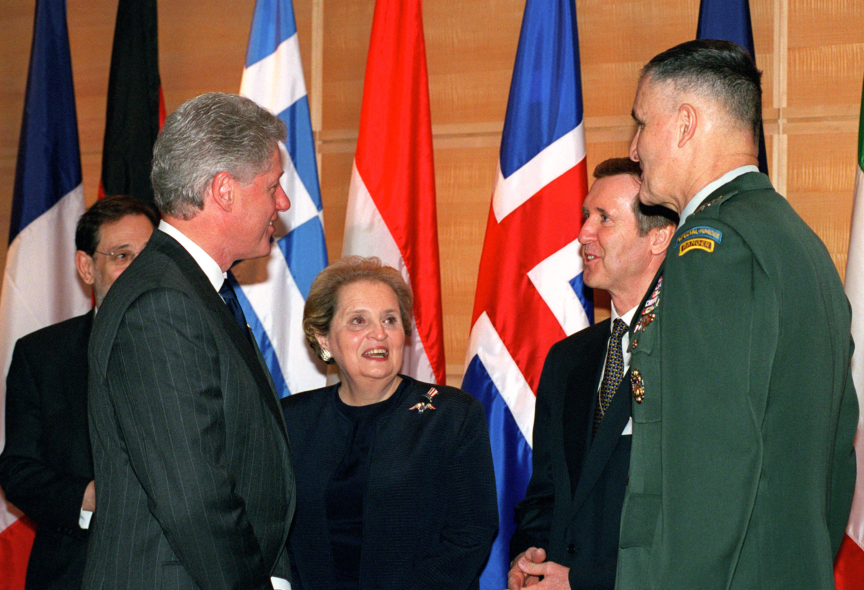 President William J. Clinton (left) chats with NATO Secretary General Javier Solana (obscured), Secretary of State Madeleine K. Albright (center), Secretary of Defense William S. Cohen (second from right), and the Chairman of the Joint Chiefs of Staff General Henry H. Shelton (right), U.S. Army, as they wait for the arrival of delegations participating in the North Atlantic Council meeting on April 23, 1999. The U.S. is hosting the NATO Summit meetings from April 23rd to the 25th in Washington, D.C.